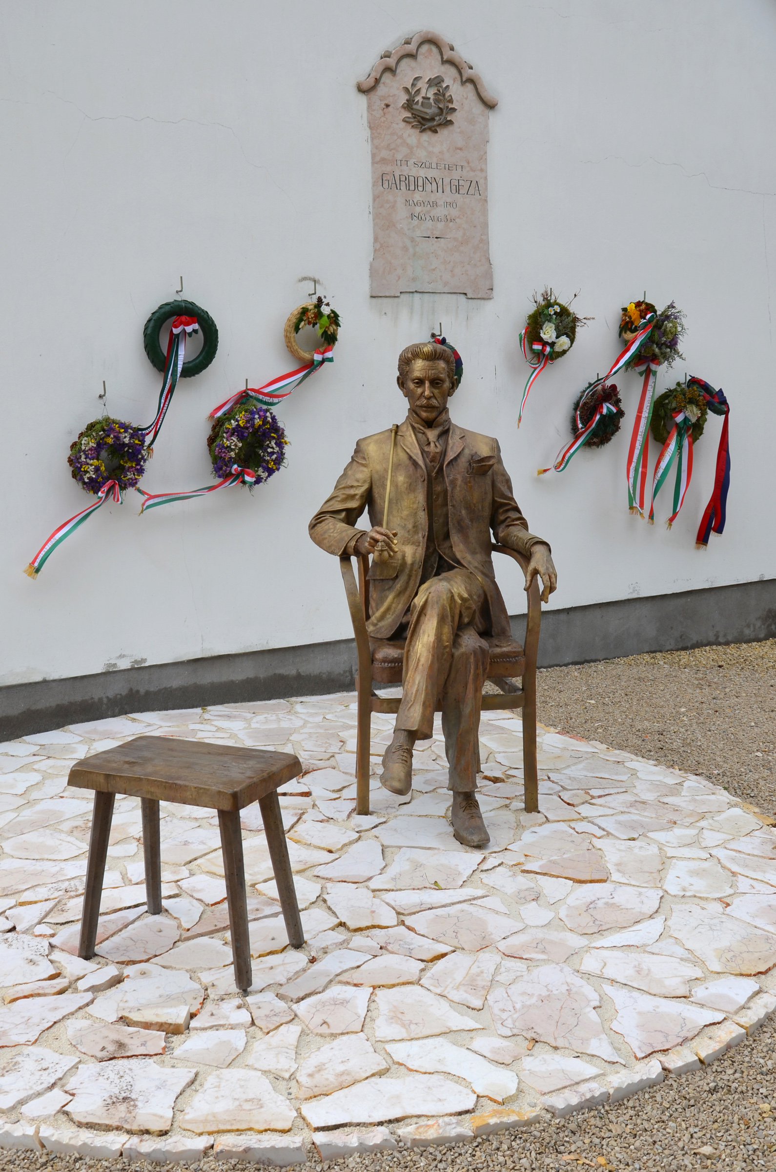 Statue of Géza Gárdonyi by his homeplace, inaugurated in 2013